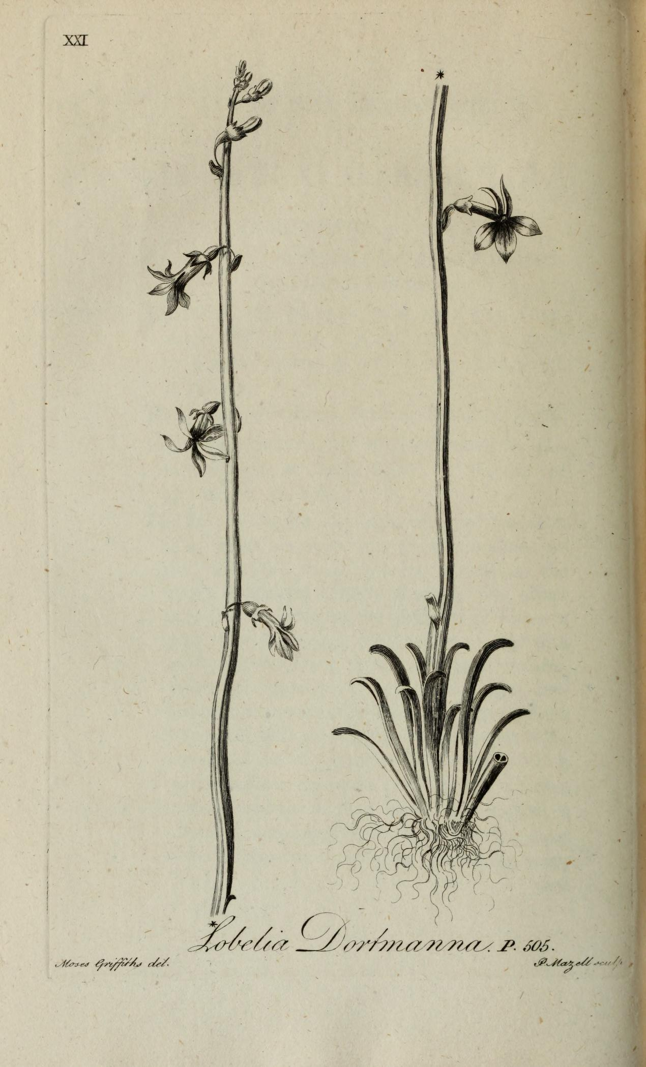 Illustration of Lobelia dortmanna L.